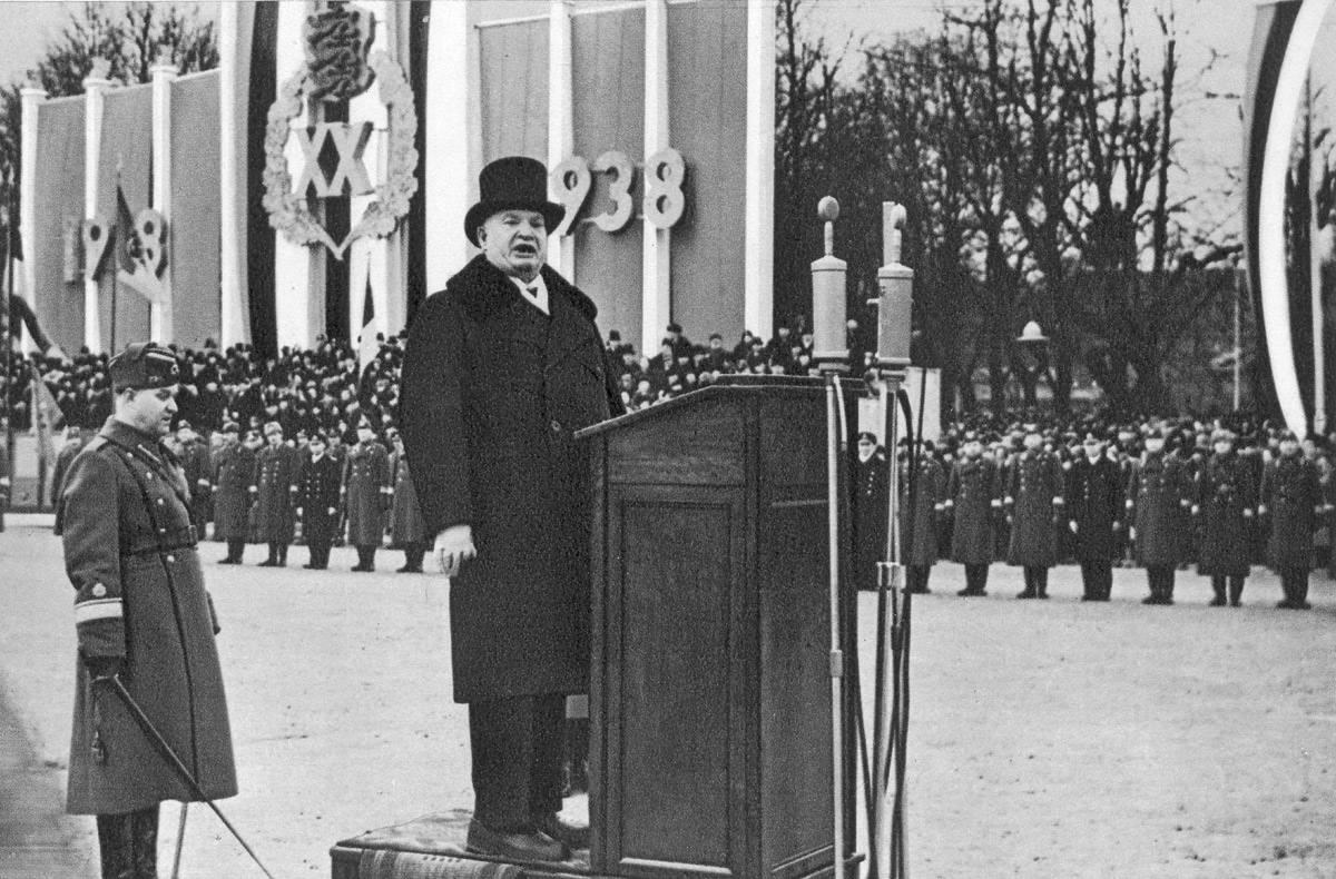 Konstantin Päts giving a speech in 1938Eesti: Konstantin Päts kõnet pidamas 1938